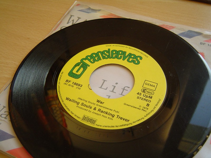 Greensleeves Vinyl:War by Wailing Souls & Rankin Trevor